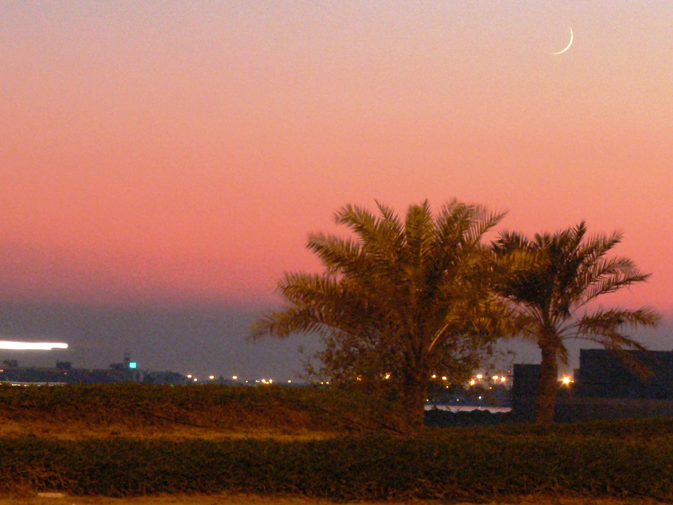 A crecent moon can be seen over palm trees at sunset in Manama, Bahrain, marking the beginning of the Muslim month of Ramadan.Welcome Ramadhan